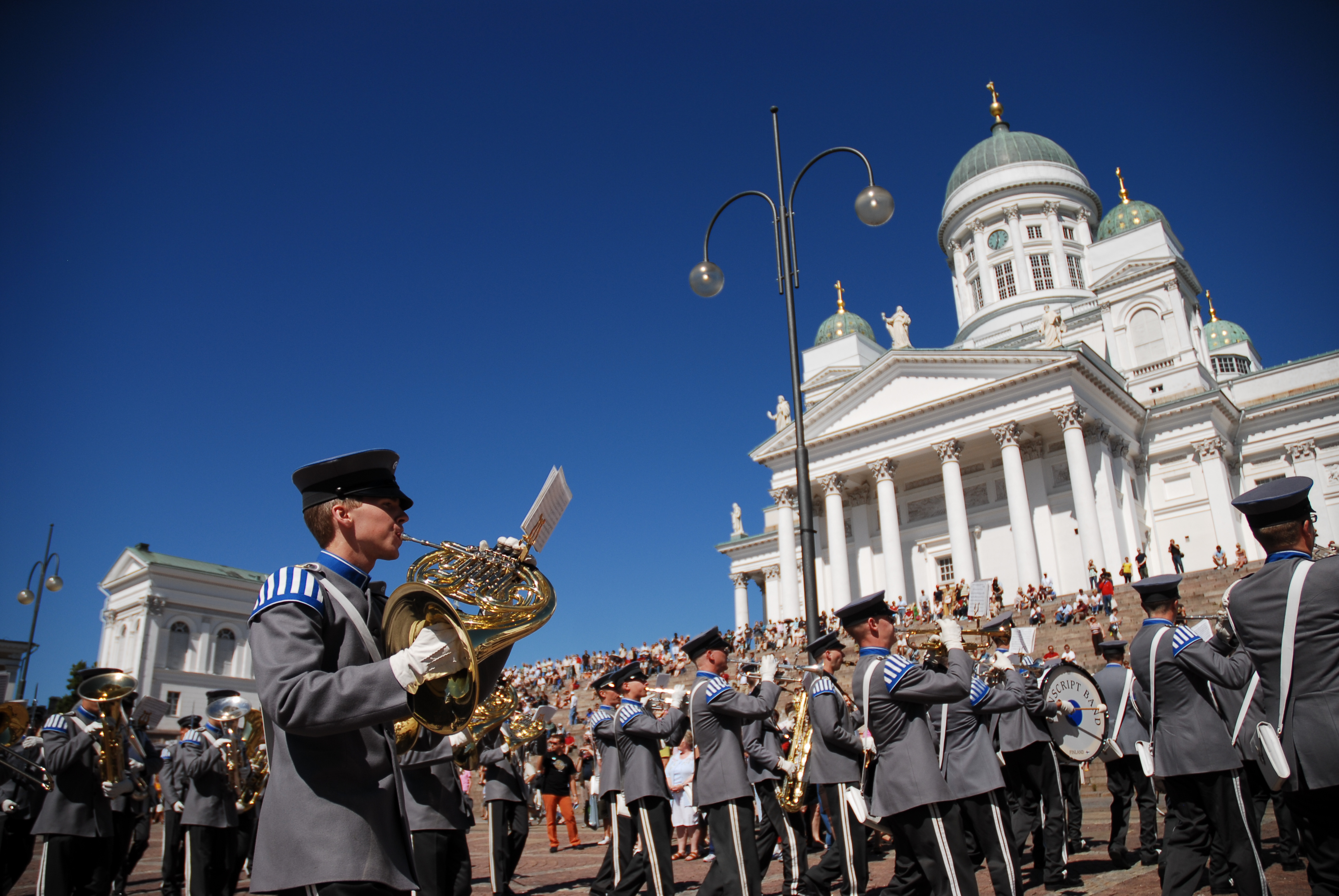 View of Helsinki Lutheran Cathedral from Senate Square, Kruununhaka, centre of Helsinki. Finland, Northern Europe.